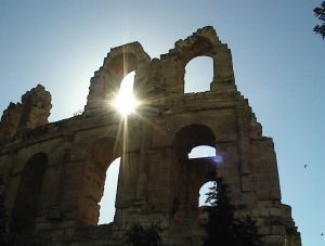 El Jem in the morning